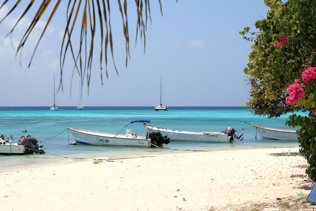 View to beach of Gran Roque from posada Dona Carmen